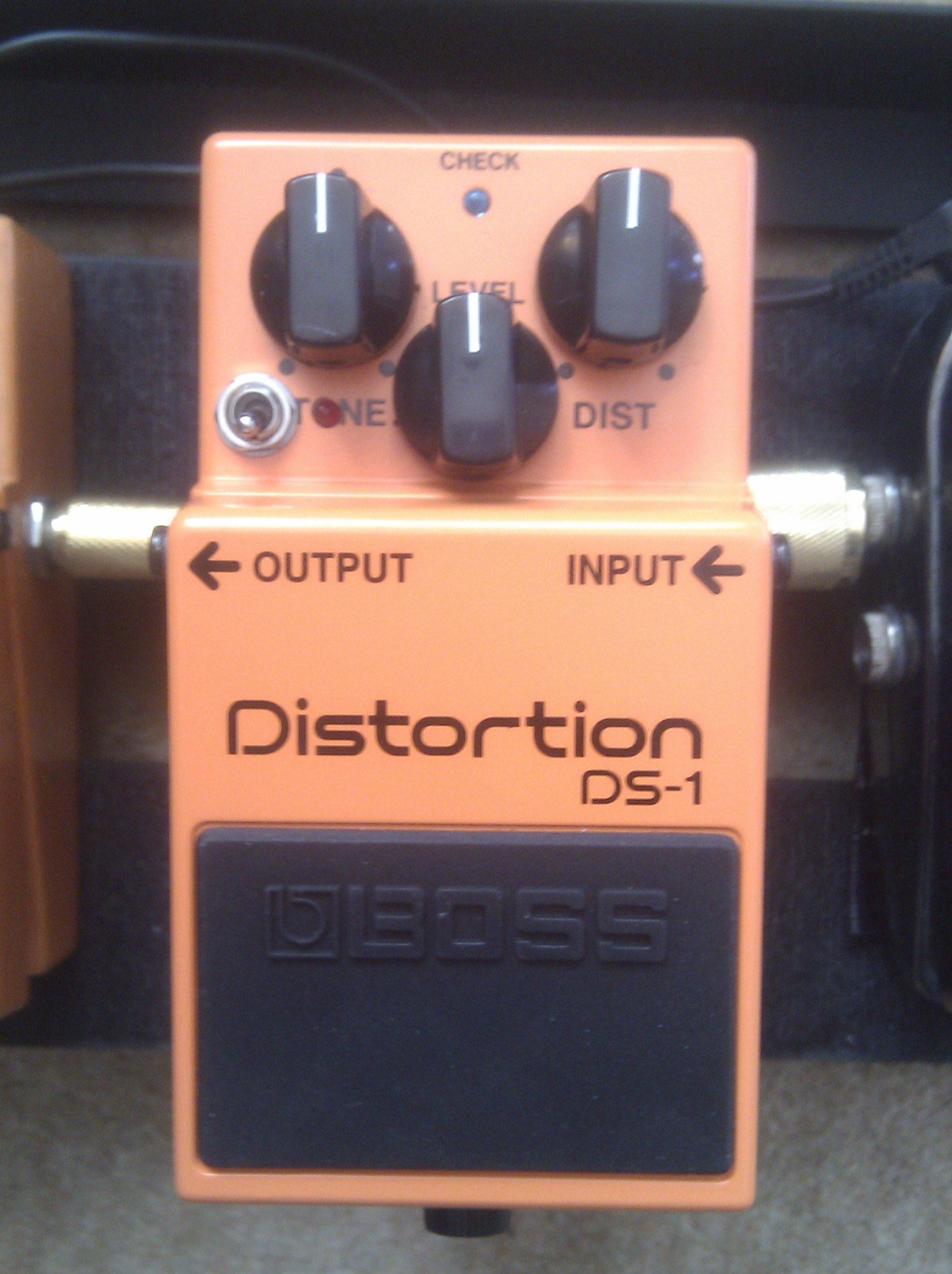 Boss DS-1 distortion pedal with Keeley DS-1 Ultra Mod